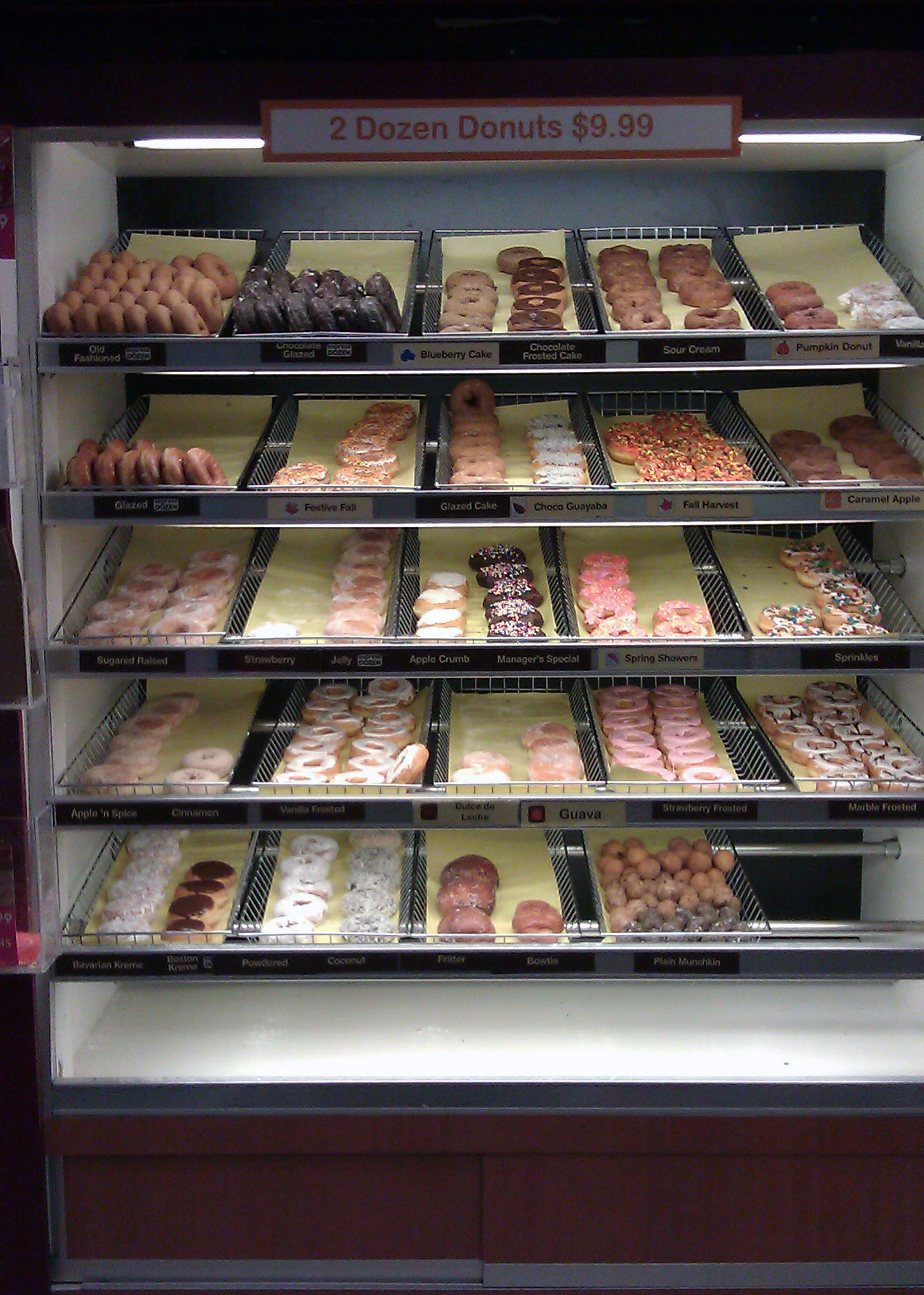 Display of Donuts at Dunkin Donuts Franchise